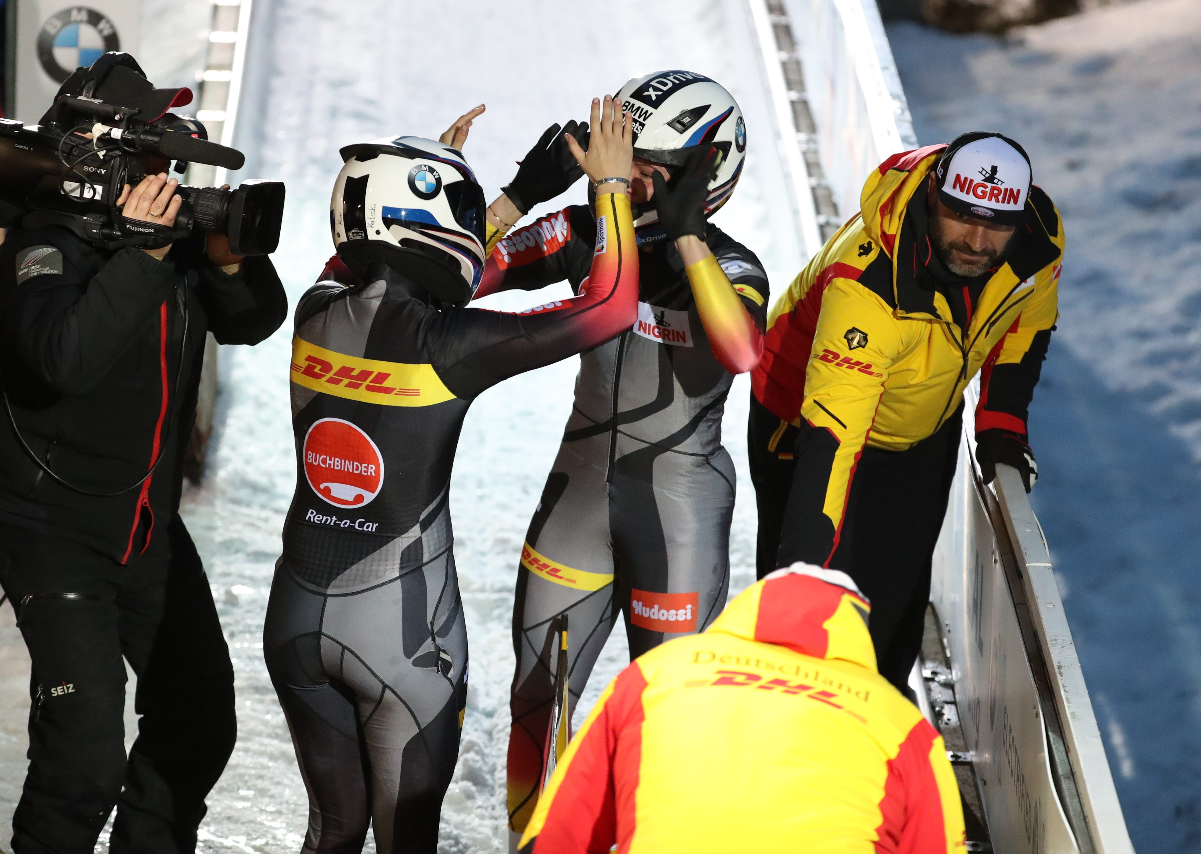 4th run at the 2-woman bobsleigh at the Bobsleigh and Skeleton World Championships 2020 in Altenberg